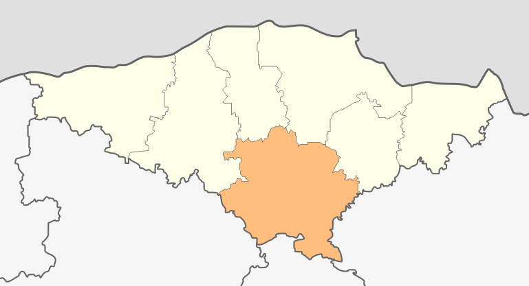 Map of Dulovo municipality, Silistra Province